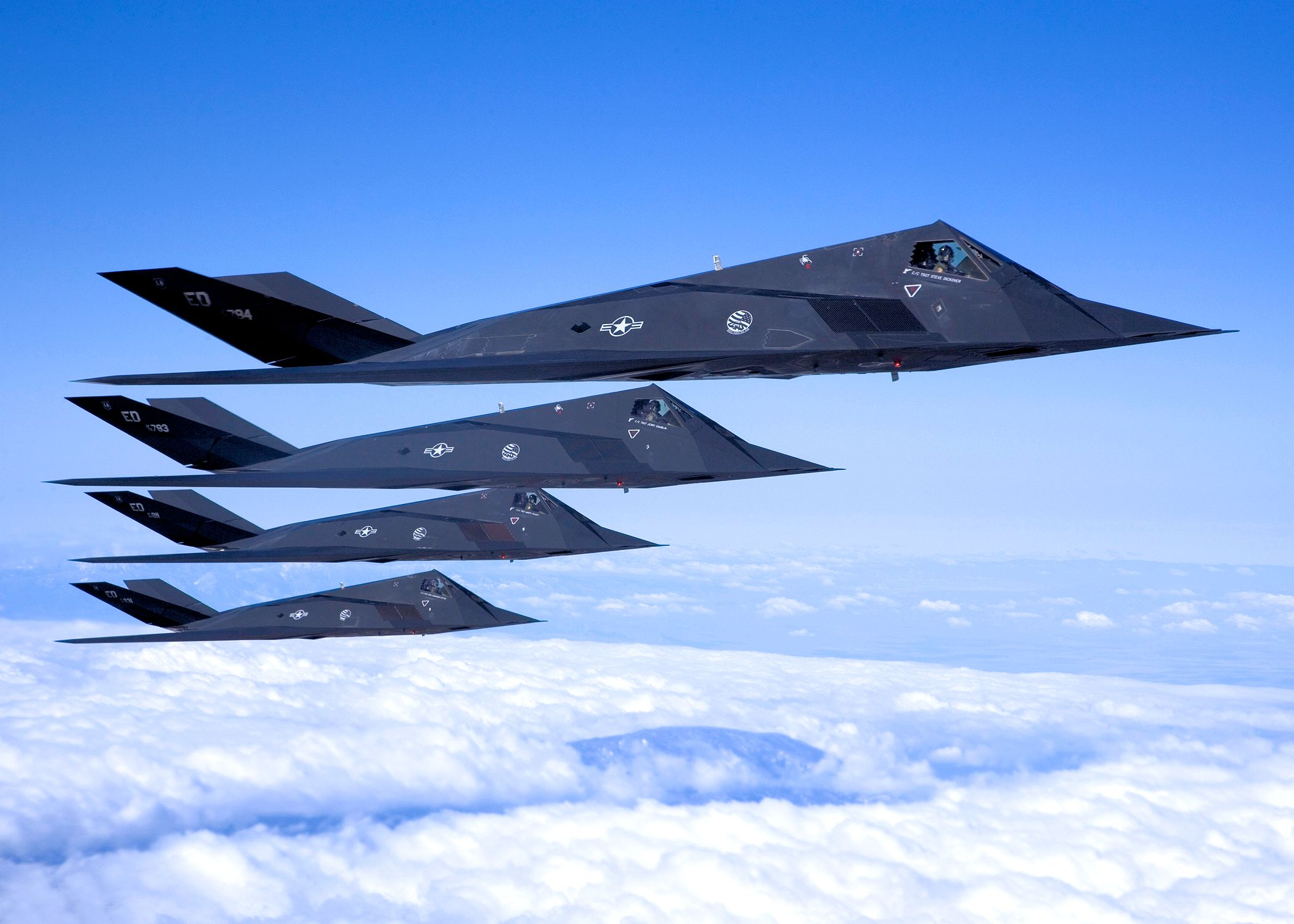 410th Flight Test Squadron - F-117 Formation. Identified aircraft are 81-10784; 81-10783; 84-0811; 85-0831. 070328-F-9126Z-504 81-10783 (FSD-4) on display at Blackbird Air Park, California 81-10784 (FSD-5) stripped and destroyed Aug 26, 2008 at AF Plant 42, Palmdale, California 84-0811 and 85-0831 in storage at Tonapah Test Range Airport, Nevada